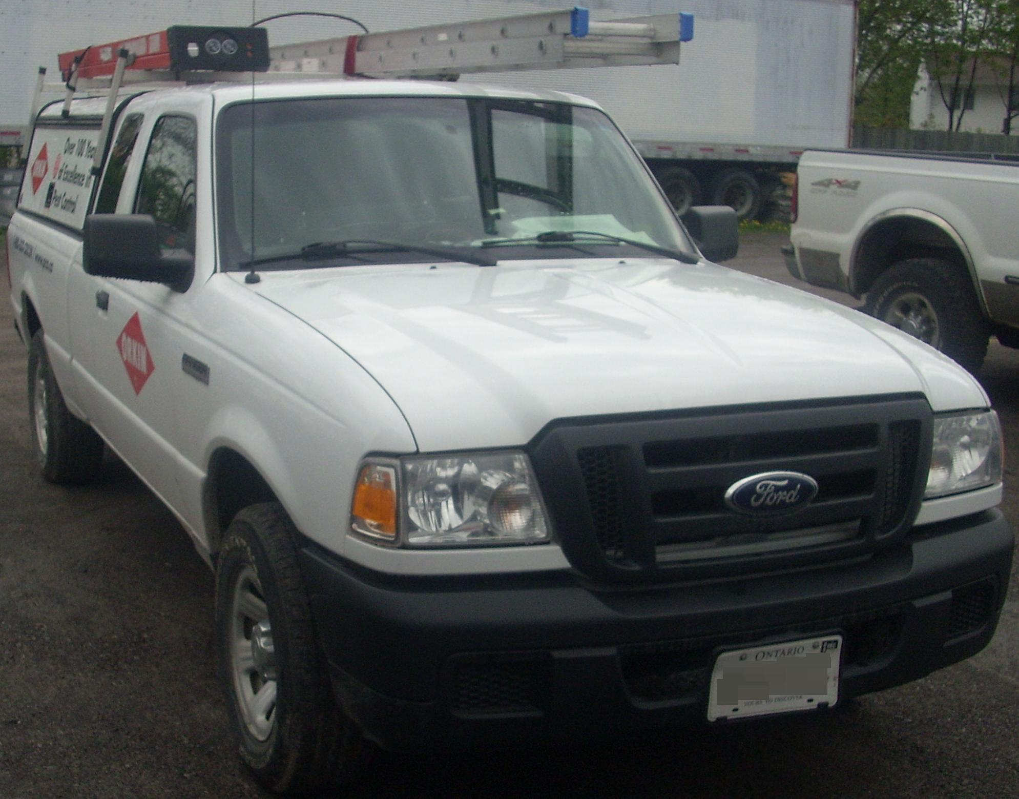 Ford Ranger photographed at the 2009 Sterling Ford Ottawa Auto Show.